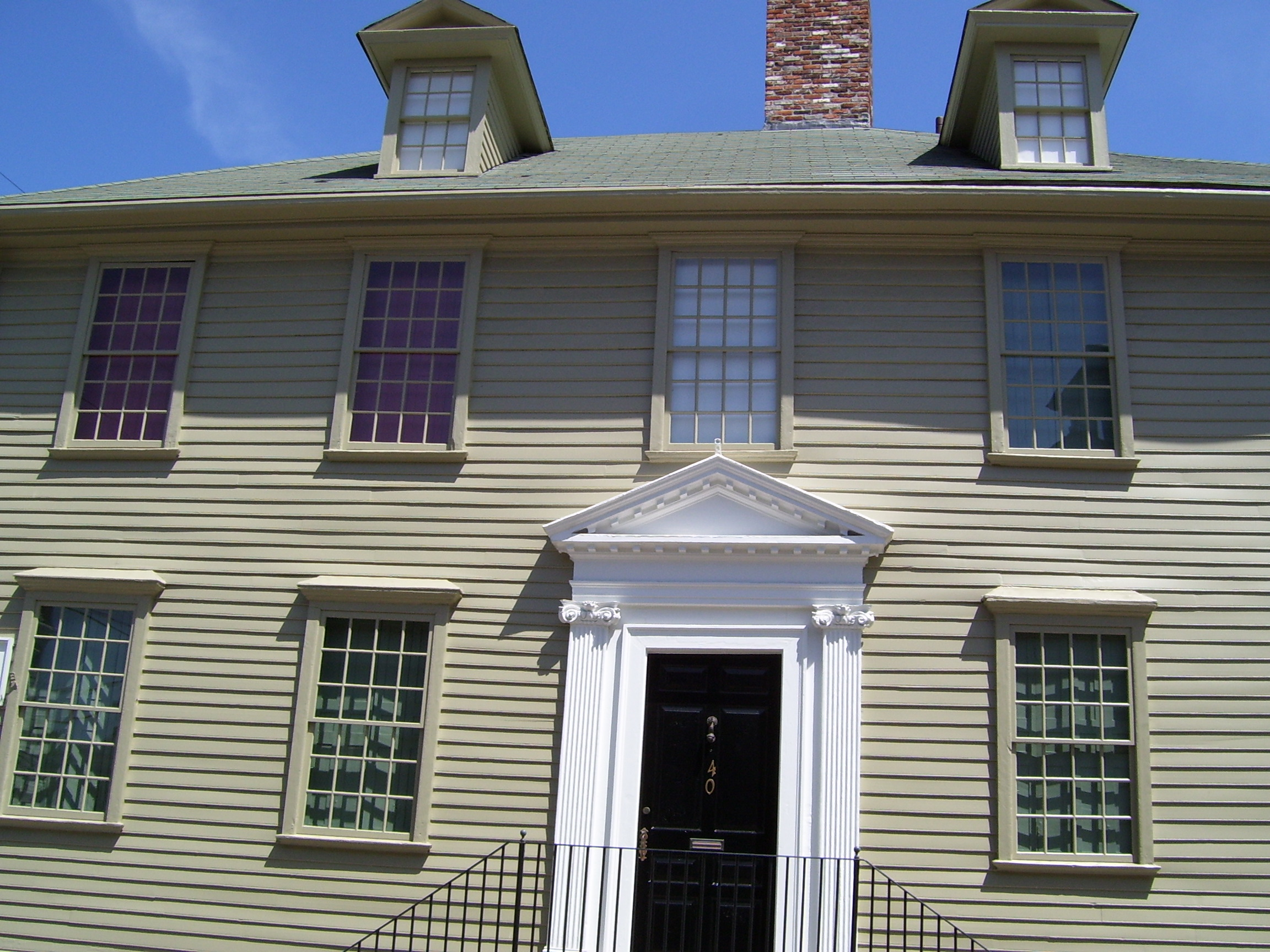 This is my pic of the Lucas Johnston House from 2008